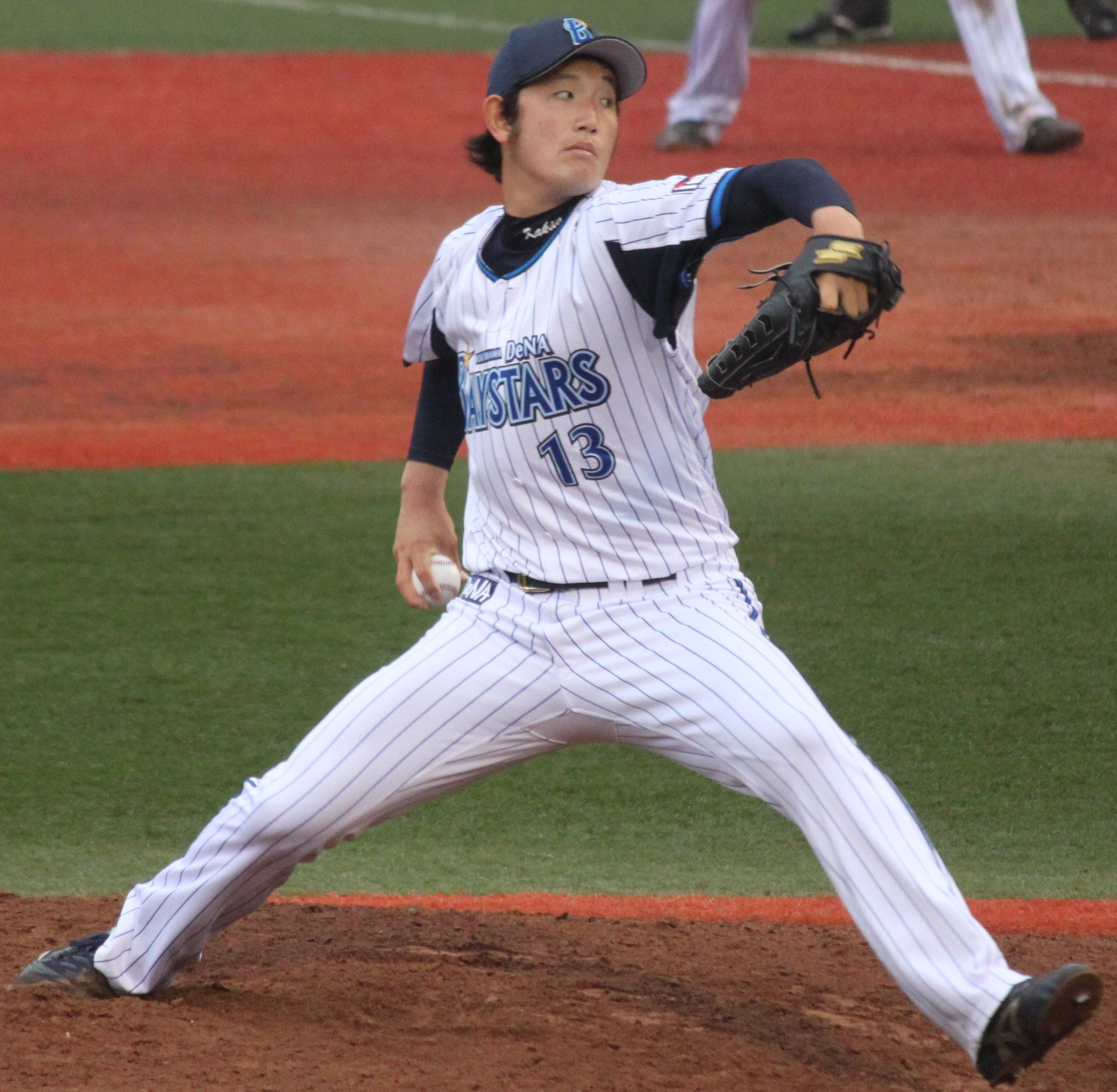 Yuta Kakita, pitcher of the Yokohama DeNA BayStars, at Yokosuka Stadium.